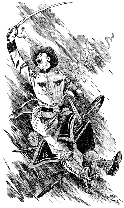 "Captain Jinks, Hero". "SAM WAS TAKEN STRADDLING A CHAIR" Frontispiece of Captain Jinks, Hero by Ernest Crosby, illustrated by Dan Beard NEW YORK AND LONDON FUNK & WAGNALLS COMPANY February 1902